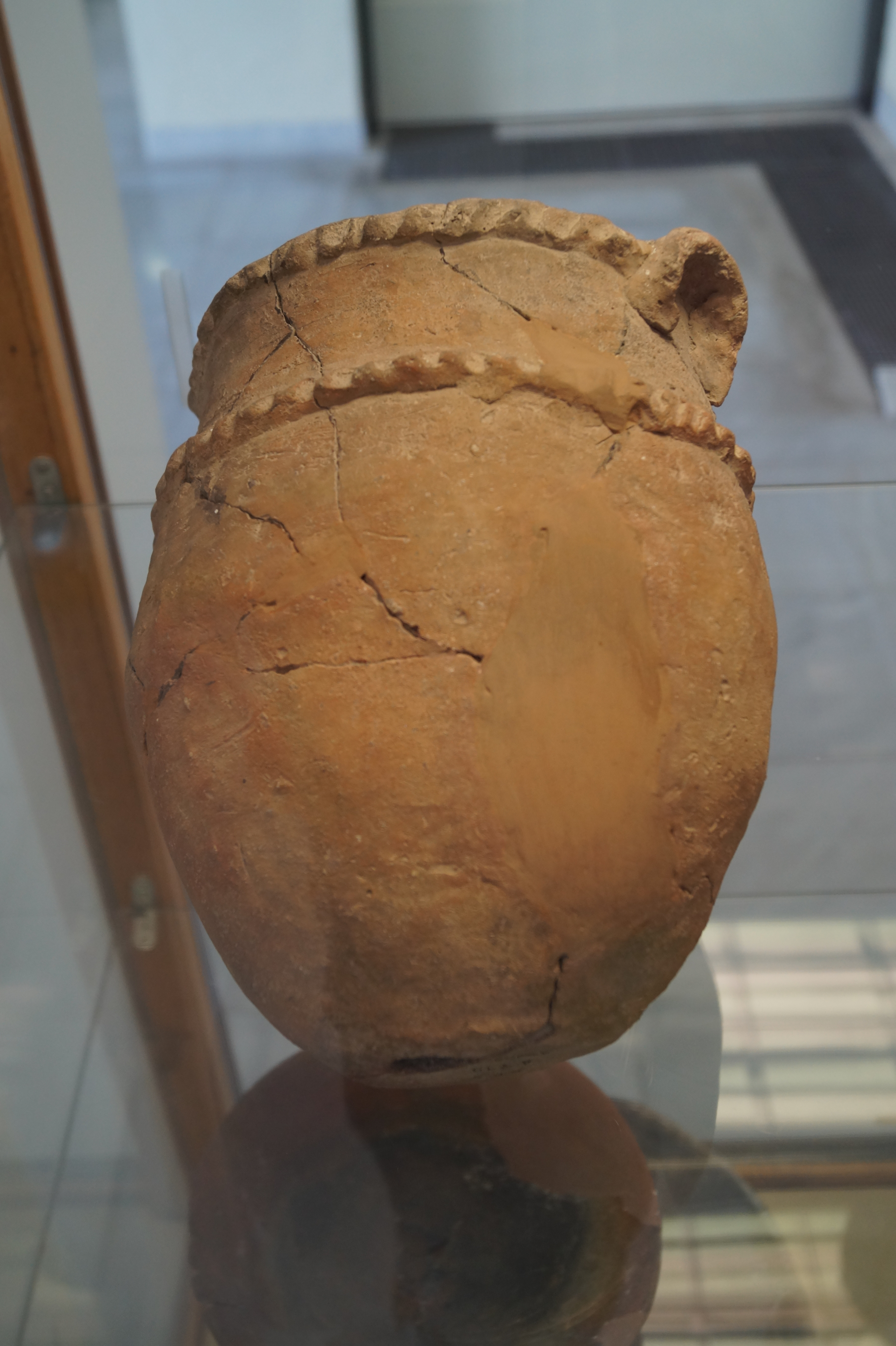 Kavala, Macedonia, Greece: Archaeological Museum of Kavala, Early Helladic vessel from Dikili Tash (3200-2200 BC)